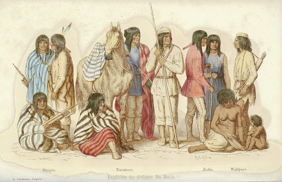 Indigenous people of Northern New Mexico, from: Balduin Möllhausen: Reisen in die Felsengebirge Nord-Amerikas bis zum Hoch-Plateau von Neu-Mexiko, unternommen als Mitglied der Colorado-Expedition, Leipzig : Costenoble, 1861